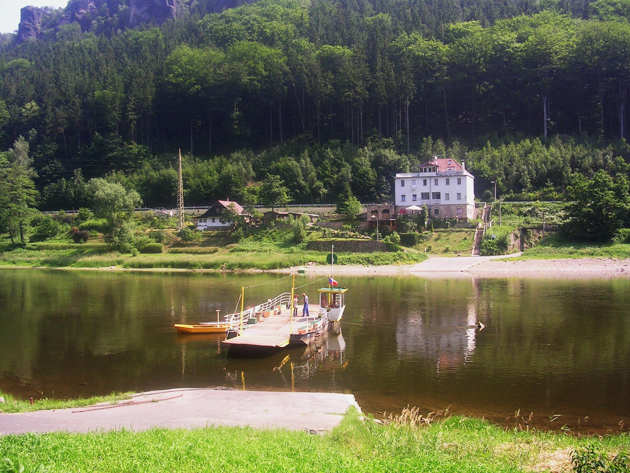 Elbe ferry Děčín-Dolní Žleb, the Czech Republic.